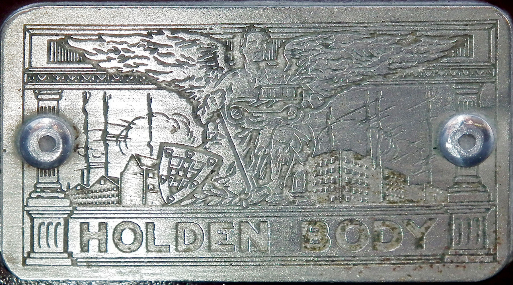 Holden's Motor Body Builders' badge on a 1928 Chevrolet National tourer straightened and cropped